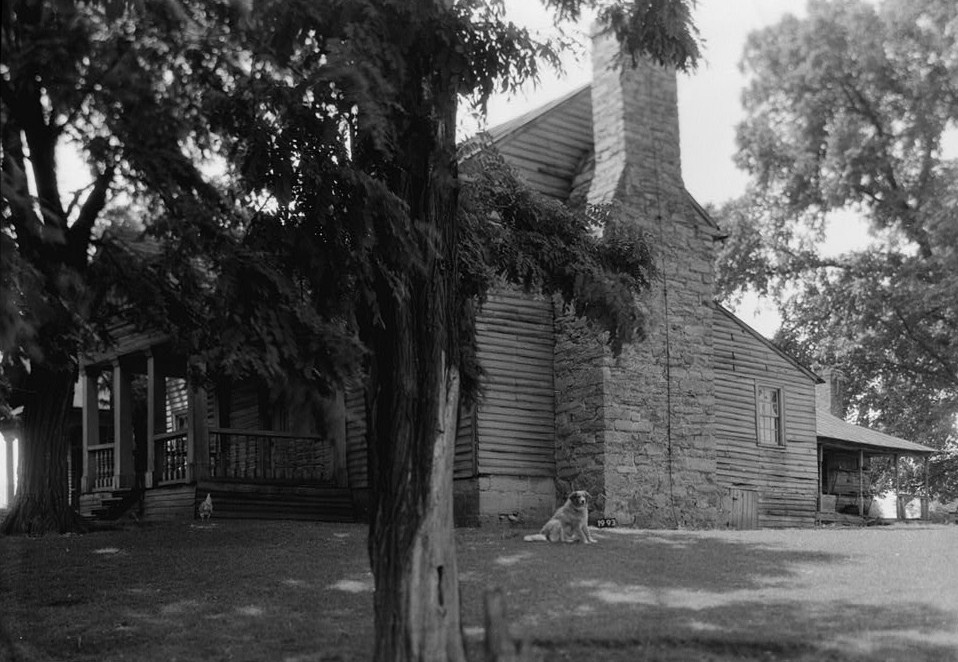 Tipton-Haynes House, U.S. Highway 19, Johnson City vicinity (Washington County, Tennessee) cropped This file comes from the Historic American Buildings Survey (HABS), Historic American Engineering Record (HAER) or Historic American Landscapes Survey (HALS). These are programs of the National Park Service established for the purpose of documenting historic places. Records consist of measured drawings, archival photographs, and written reports. When reusing please credit: Library of Congress, Prints & Photographs Division, TENN,90-JONCI.V,2-1 This tag does not indicate the copyright status of the attached work. A normal copyright tag is still required. See Commons:Licensing for more information. English | +/− This work is in the public domain in the United States because it is a work prepared by an officer or employee of the United States Government as part of that person’s official duties under the terms of Title 17, Chapter 1, Section 105 of the US Code. See Copyright. Note: This only applies to original works of the Federal Government and not to the work of any individual U.S. state, territory, commonwealth, county, municipality, or any other subdivision. This template also does not apply to postage stamp designs published by the United States Postal Service since 1978. (See 206.02(b) of Compendium II: Copyright Office Practices). It also does not apply to certain US coins; see The US Mint Terms of Use. This file has been identified as being free of known restrictions under copyright law, including all related and neighboring rights.